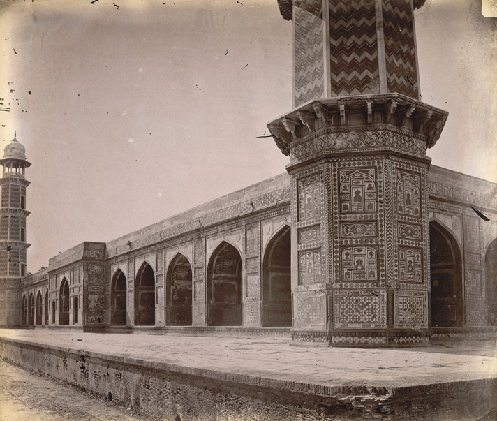 Façade of Jahangir's Tomb taken by Henry Hardy Cole in 1880